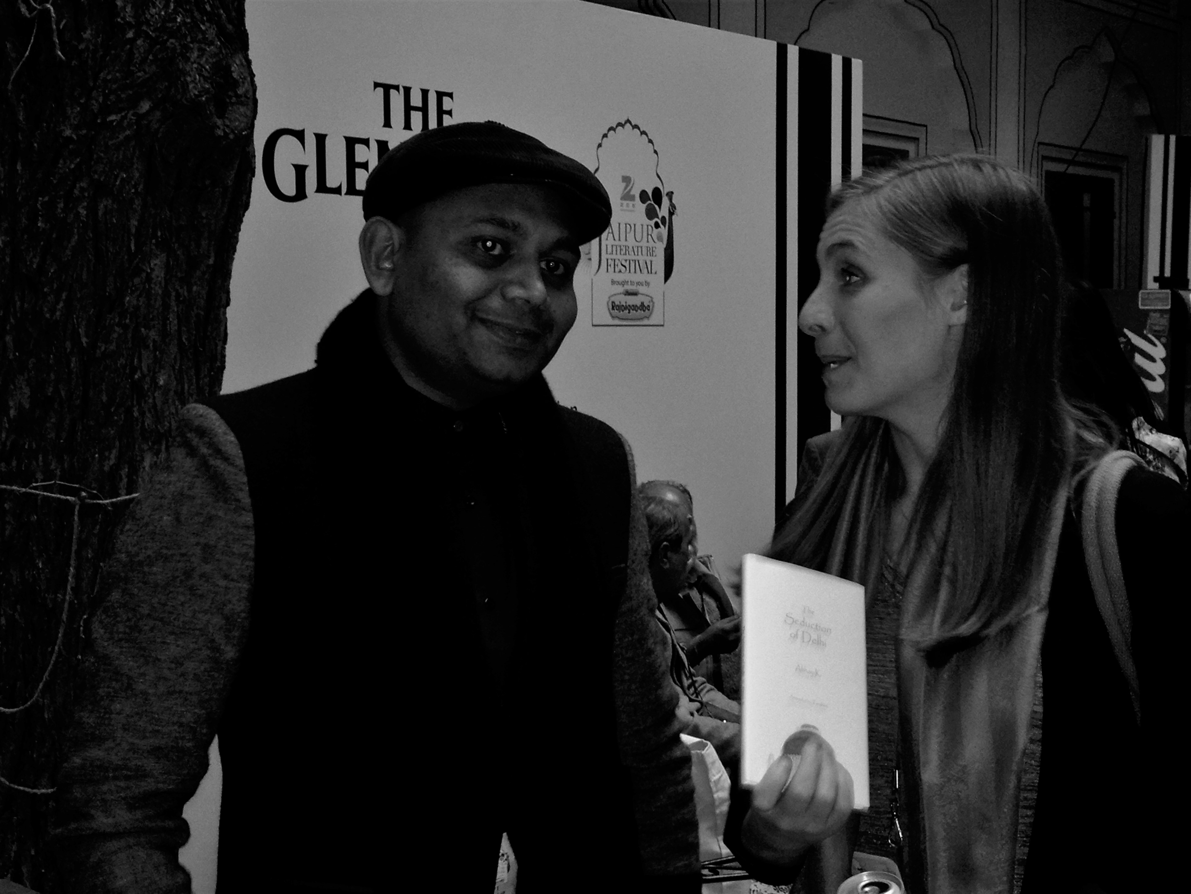 Poet-diplomat Abhay K and Booker Prize winner Eleanor Catton at the Jaipur Literature Festival 2015